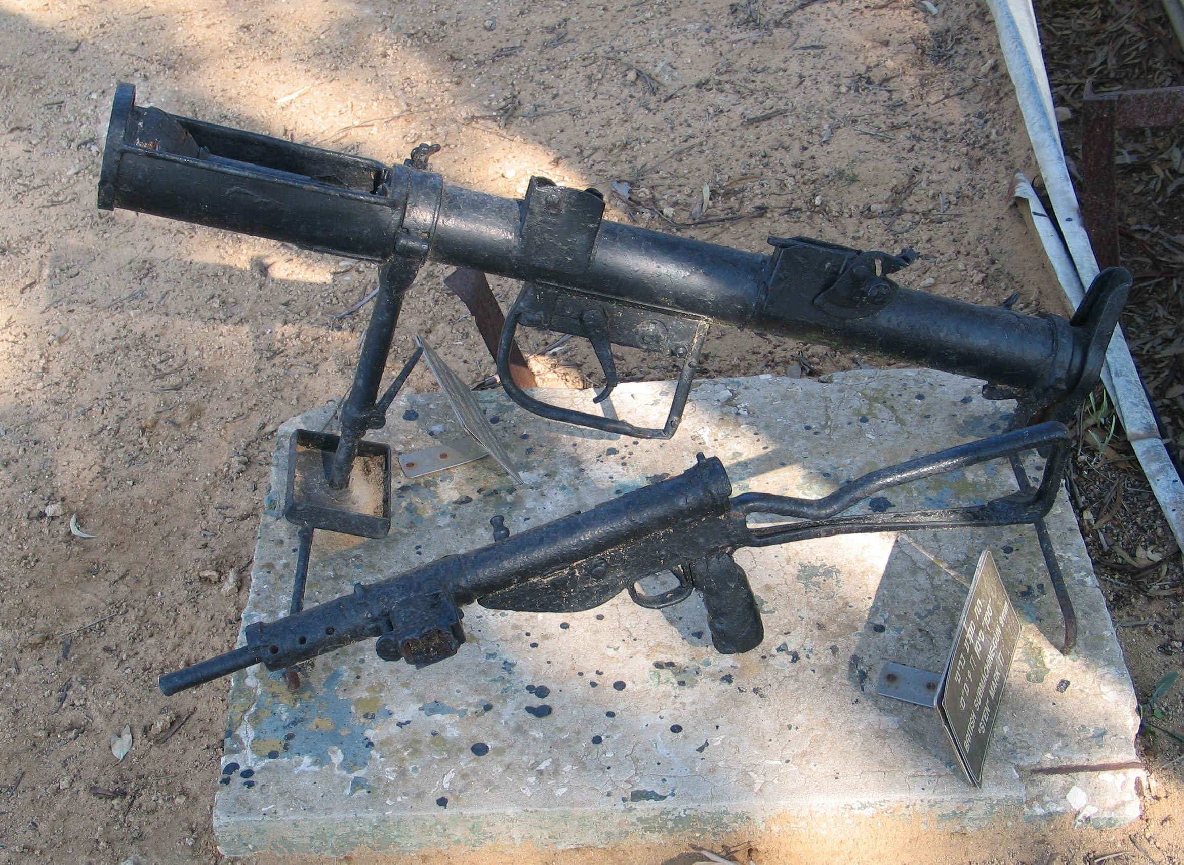 Projector, Infantry, Anti-Tank (PIAT) and Sten Mk II submachine gun at Yad Mordechai battlefield reconstruction site.